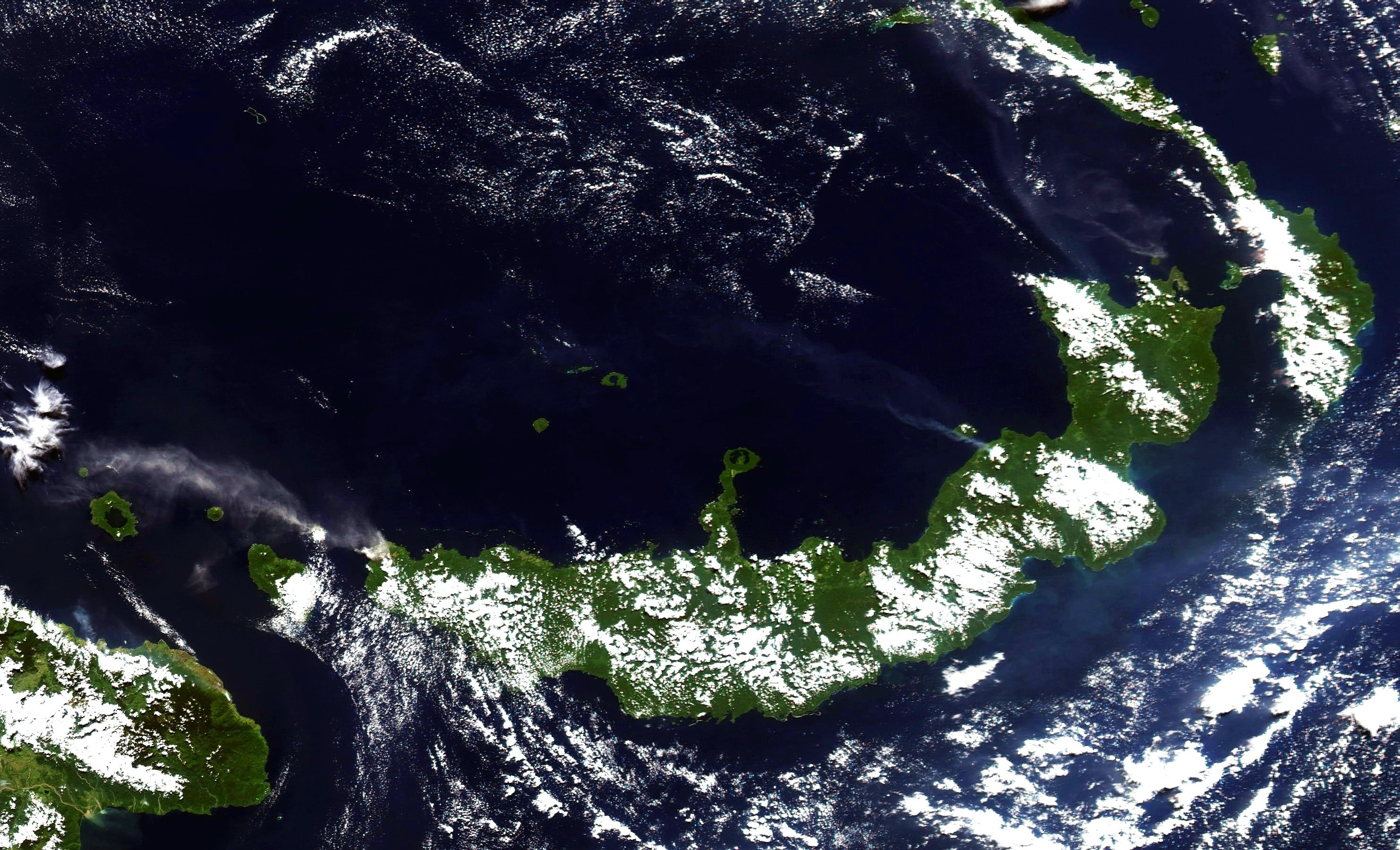 Three volcanoes in Papua New Guinea’s West New Britain province spewed ash on June 21, 2005. The Moderate Resolution Imaging Spectroradiometer (MODIS), flying on NASA’s Aqua satellite captured this image of Langila, Ulawun, and Rabaul the same day. At the time MODIS captured this image, Langila showed the biggest plume of volcanic ash, followed by Ulawun. Both volcanoes are enlarged below the main image. In all cases, winds pushed the ash clouds to the northwest, over the ocean.